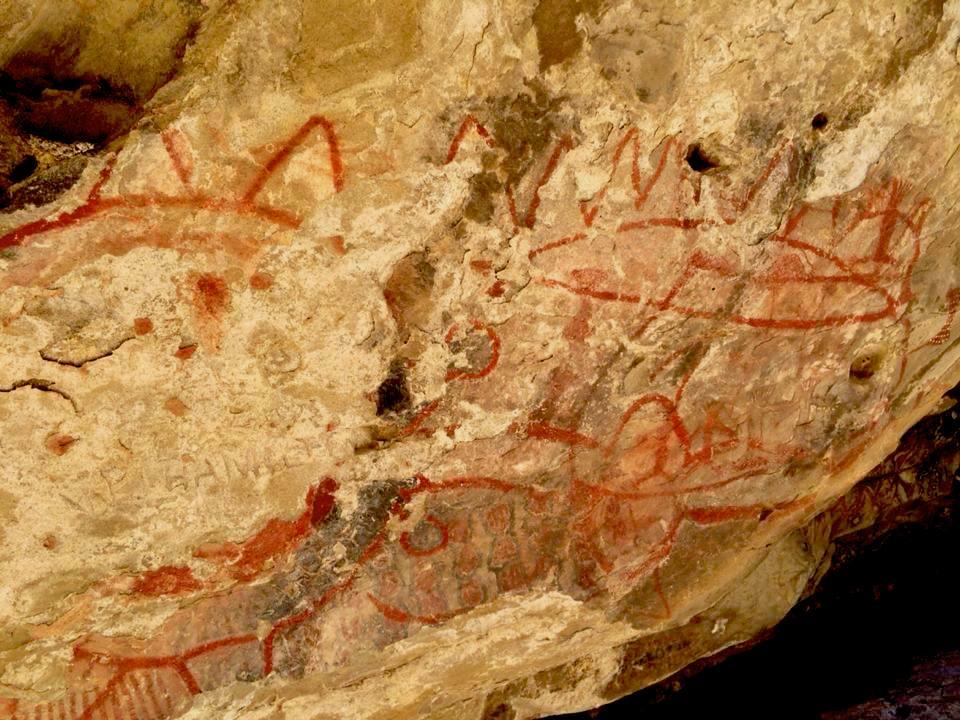 Pictographs at Painted Rock in Carrizo Plain National Monument